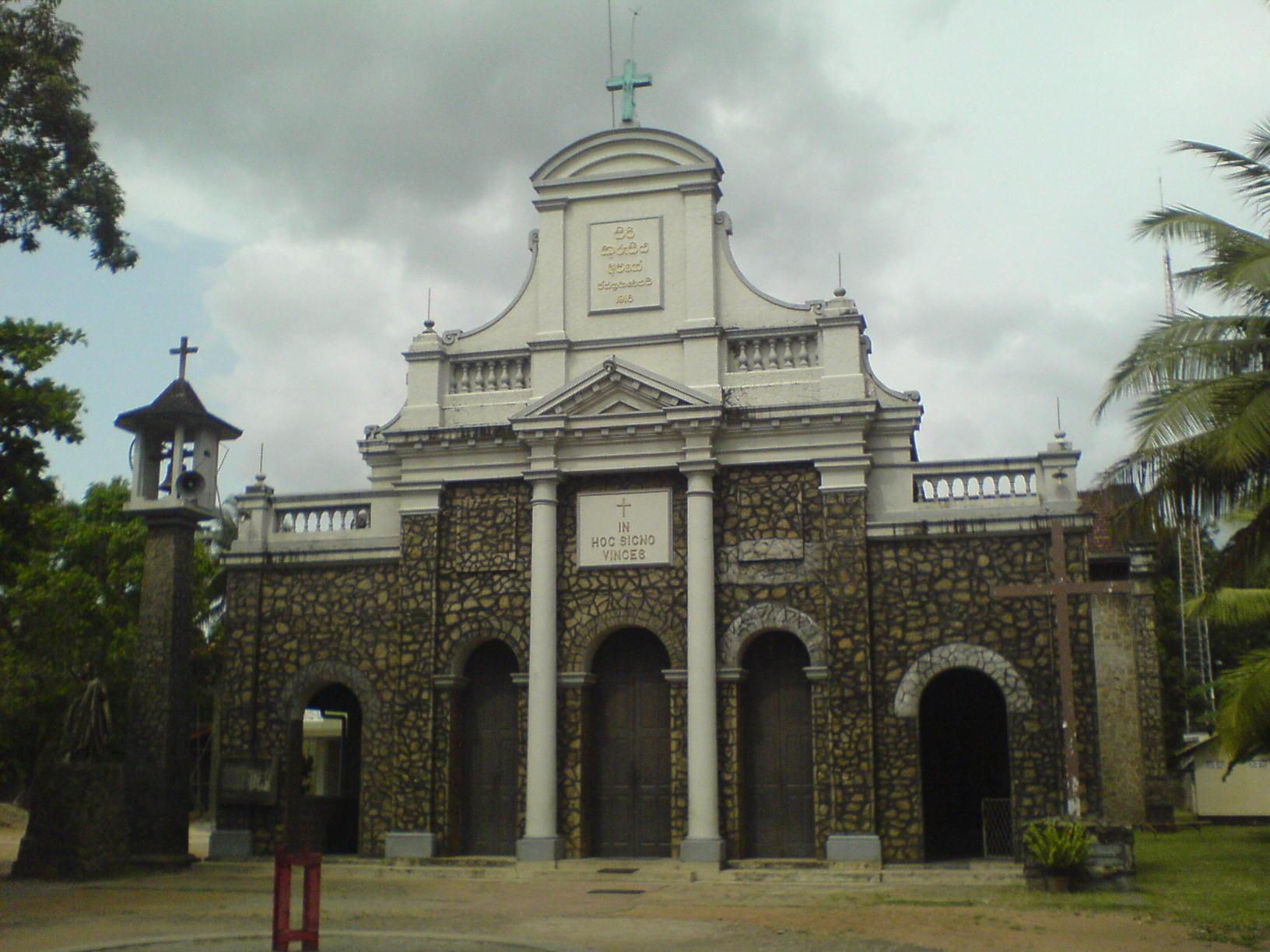 Pradeep Malli